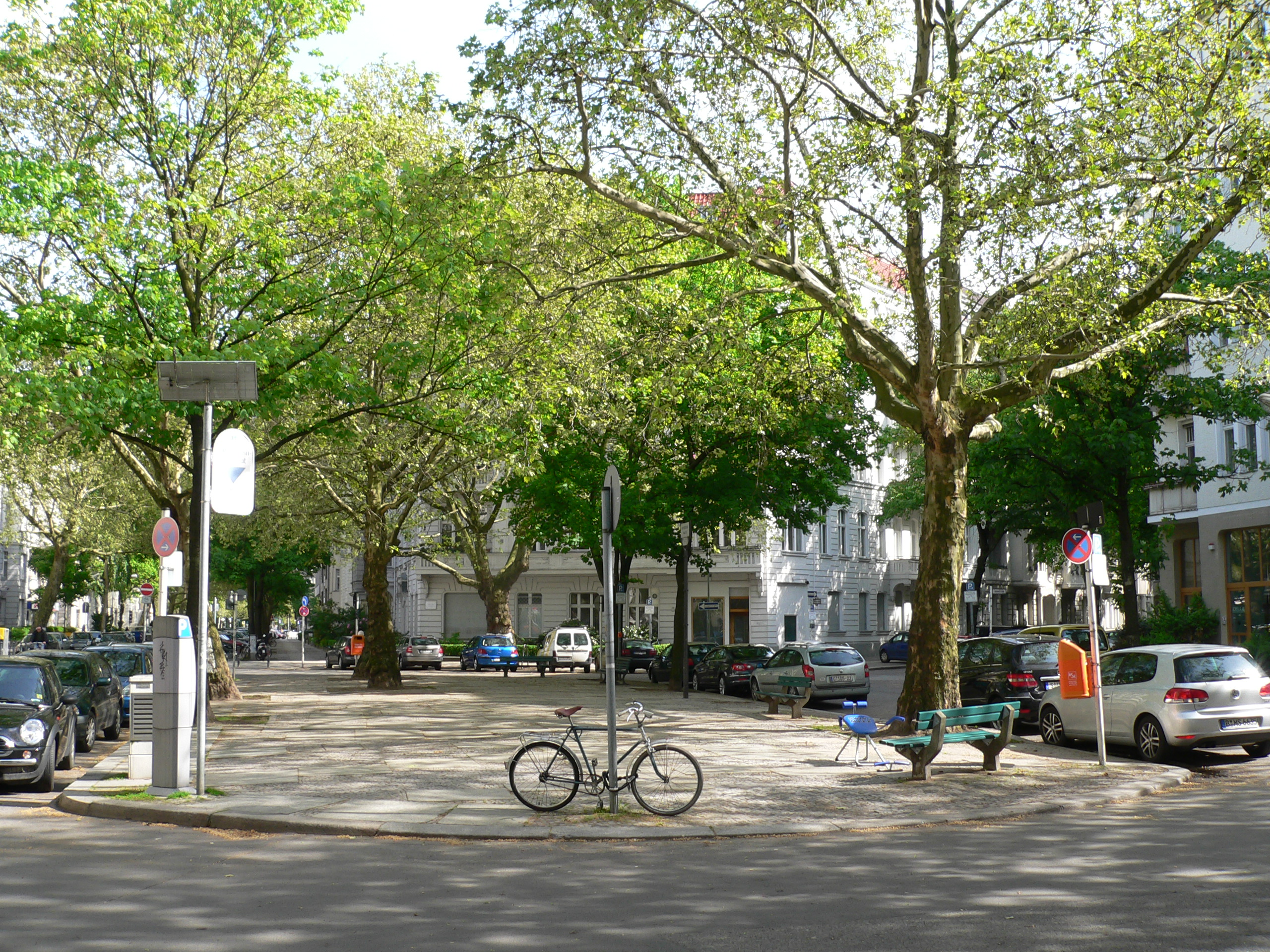 Berlin-Charlottenburg Meyerinckplatz